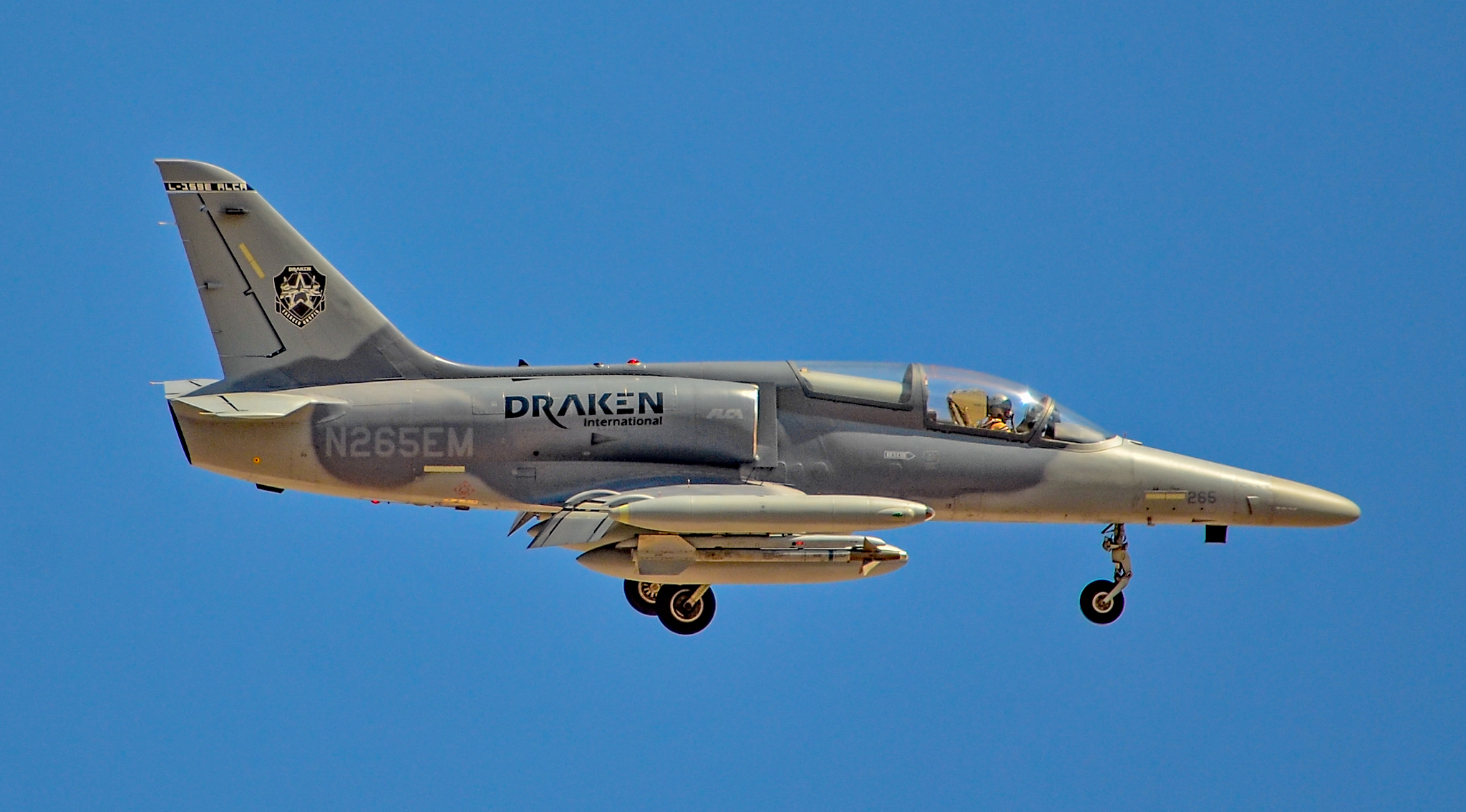 L-159E of Draken International, Las Vegas - Nellis AFB (LSV / KLSV) USA - Nevada, September 15, 2017 Photo: TDelCoro